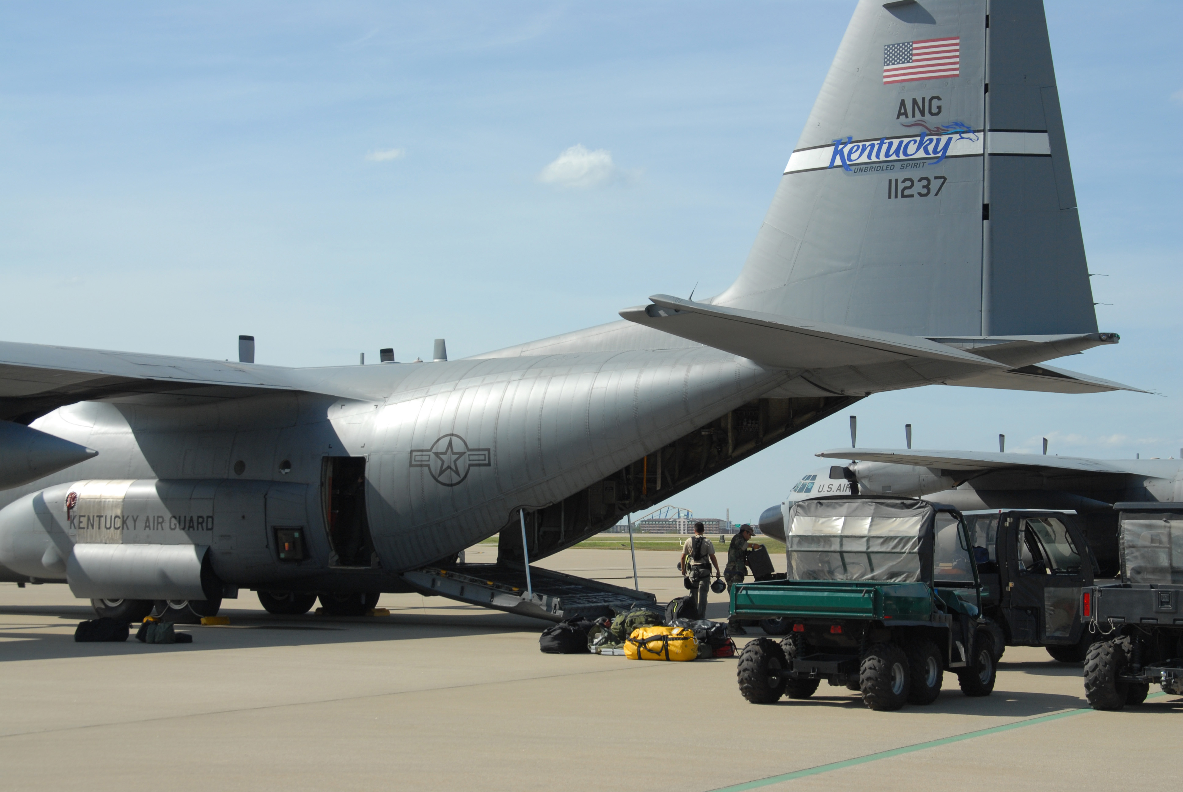 Members of the Kentucky Air Guard's 123rd Special Tactics Squadron load rescue gear onto a C-130 for deployment to coastal Texas on Sept. 13. About 25 of the unit's pararescuemen, combat controllers and support troops will conduct rescue and relief operations around Houston and Galveston in the wake of Hurricane Ike. Kentucky Air National Guard photo by Dennis Flora